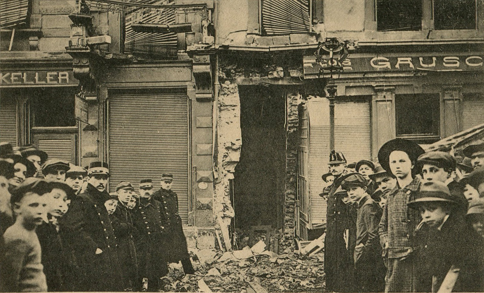 A house hit by a bomb in Luxembourg, Avenue de la Gare, March 24, 1918